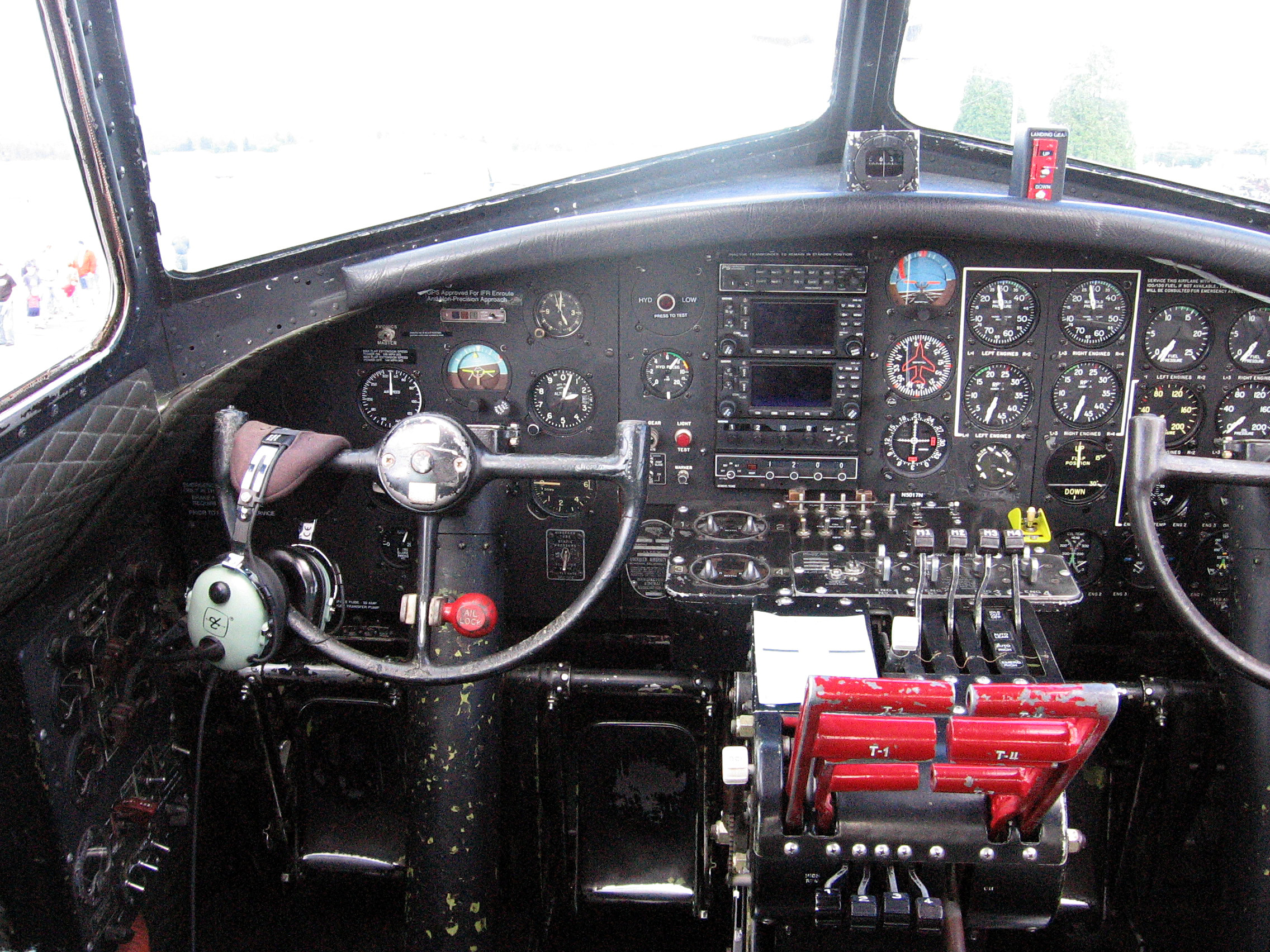 Cockpit controls of a B-17.